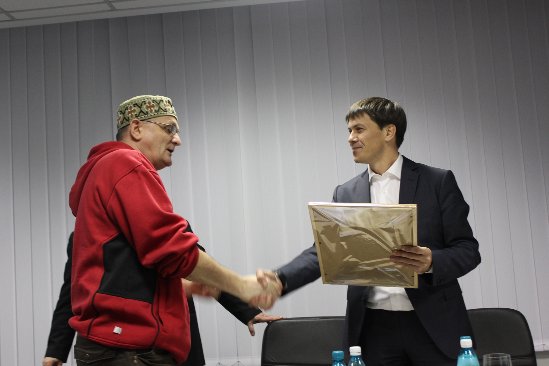 Vasile Botnaru and Oleg Efrim